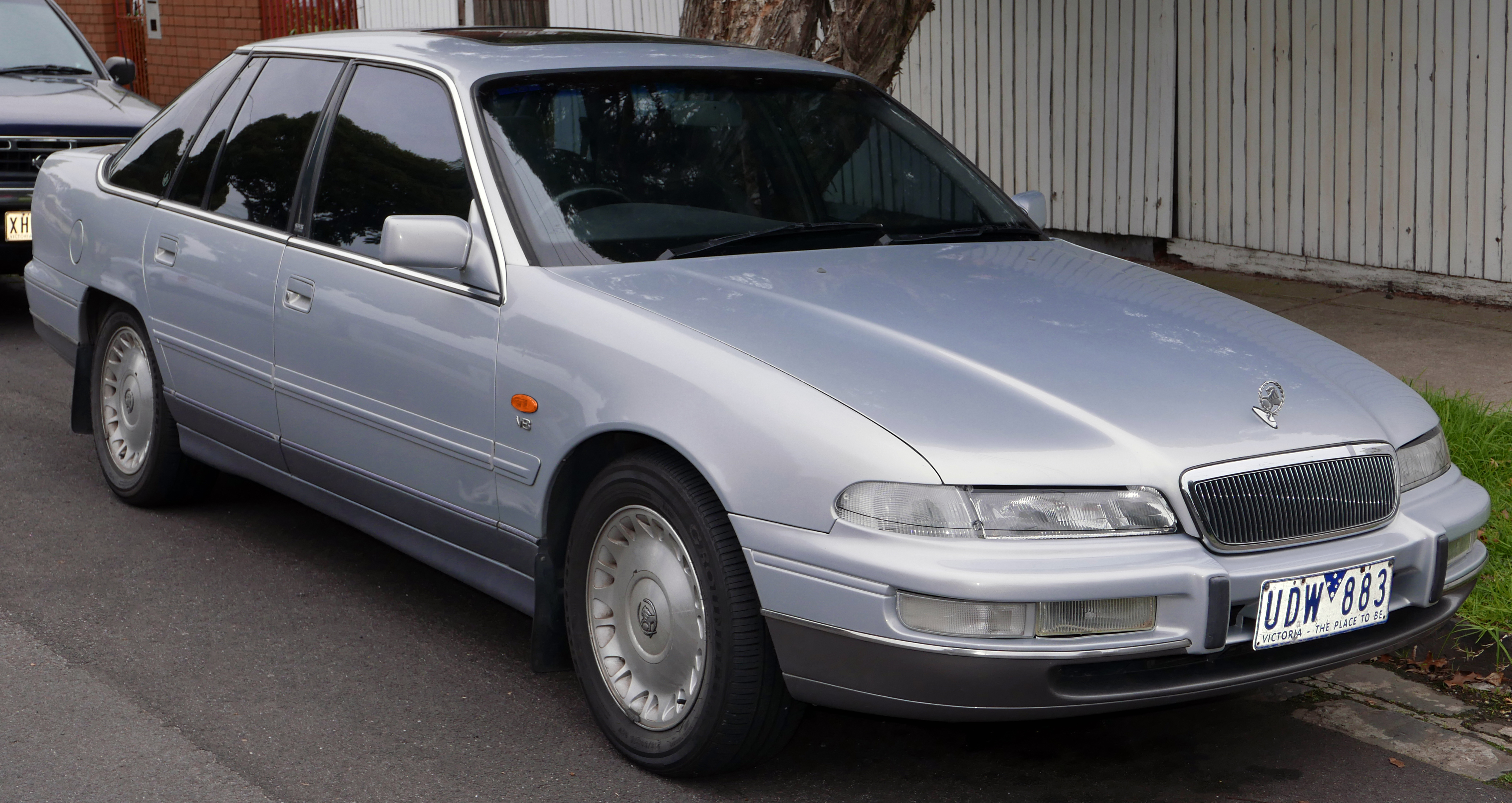 1998 Holden Caprice (VS II) sedan. Photographed in Kew, Victoria, Australia. Vehicle registration enquiry results Jurisdiction Victoria Registration UDW883 Chassis code 6H8VSZ19UWL329944 Engine code 1KD2305865 Compliance date 1998-04 Year of manufacture 1998